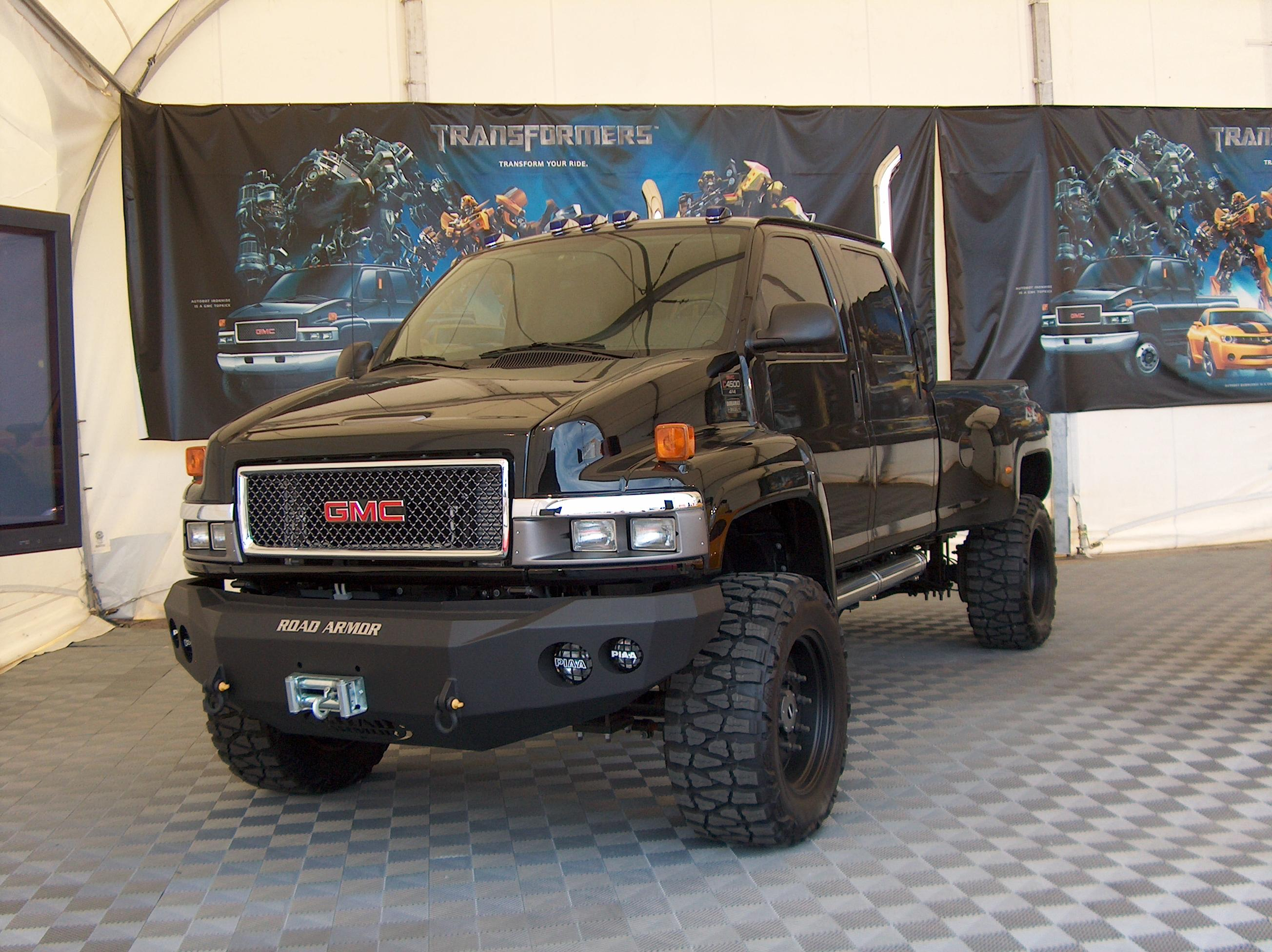 A picture of Transformers movie Autobot Ironhide car taken by myself at the Detroit River Walk festival 2007.